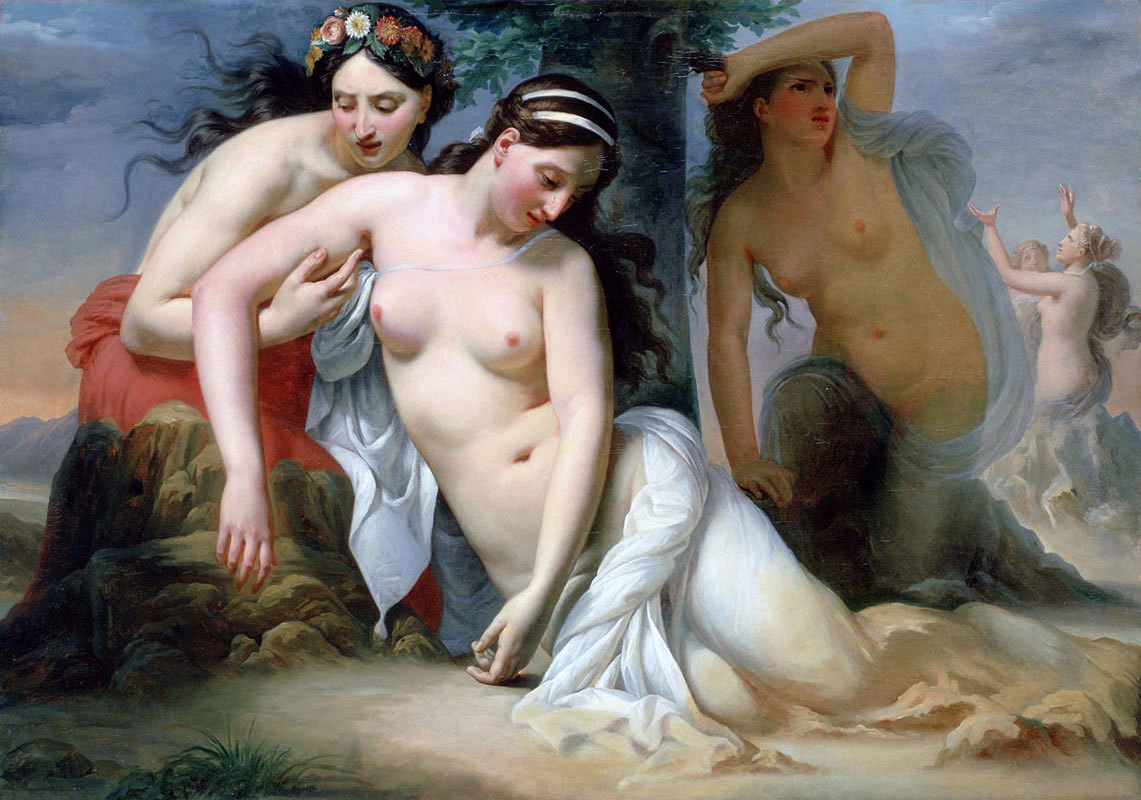 Alexandre-Denis Abel de Pujol. The Propoetides Changed into Rock (1819). Inspired by Ovid, The Metamorphoses.